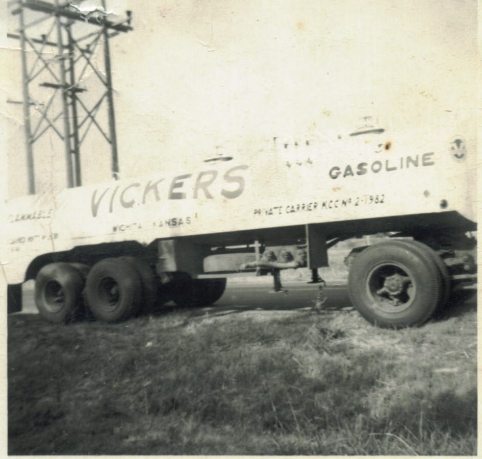 Gasoline tanker, Wichita, Kansas Aug 1954